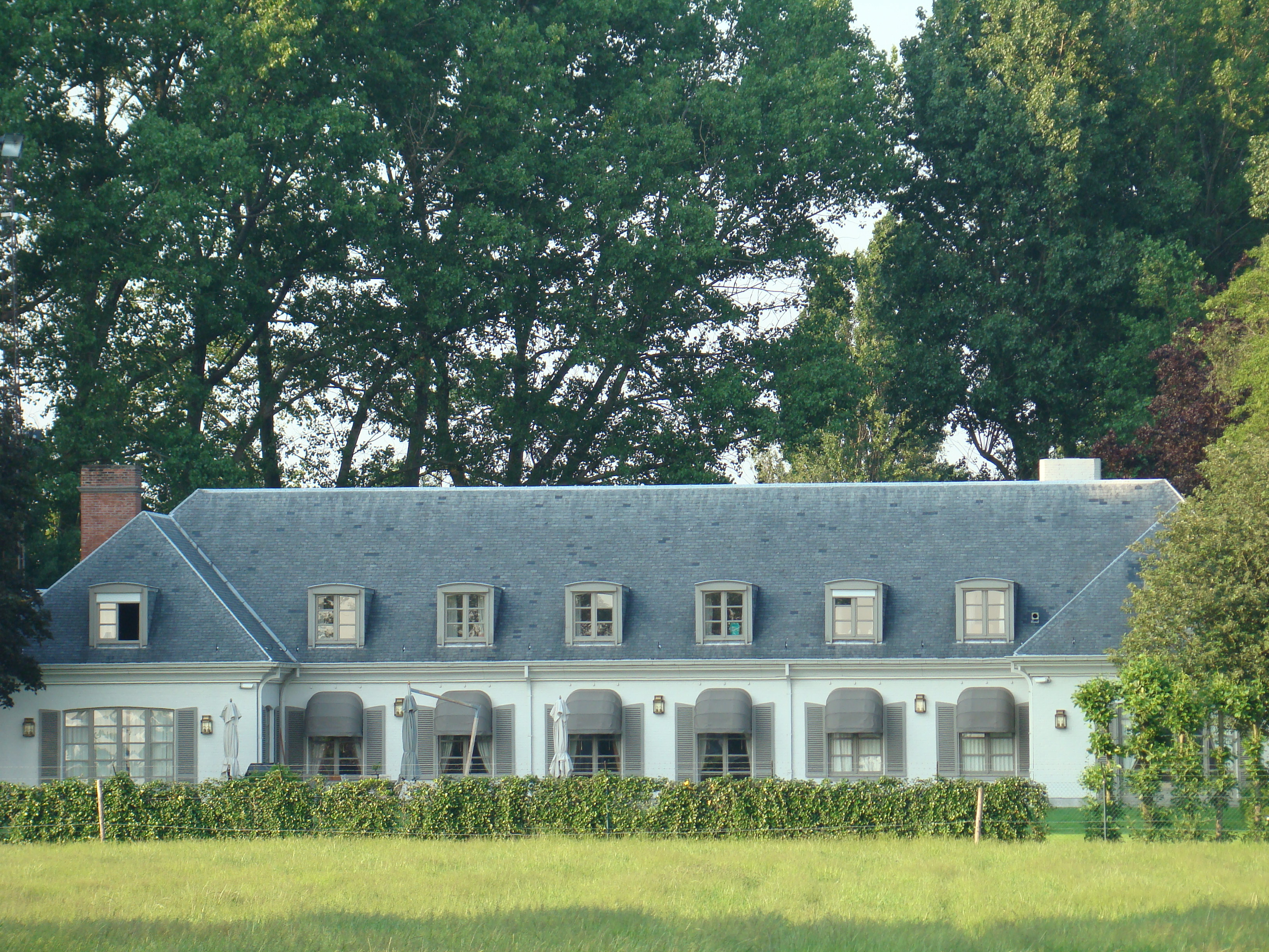 Home of the family Roger De Clerck, founder of Beaulieu, Wielsbeke, West Flanders, Belgium